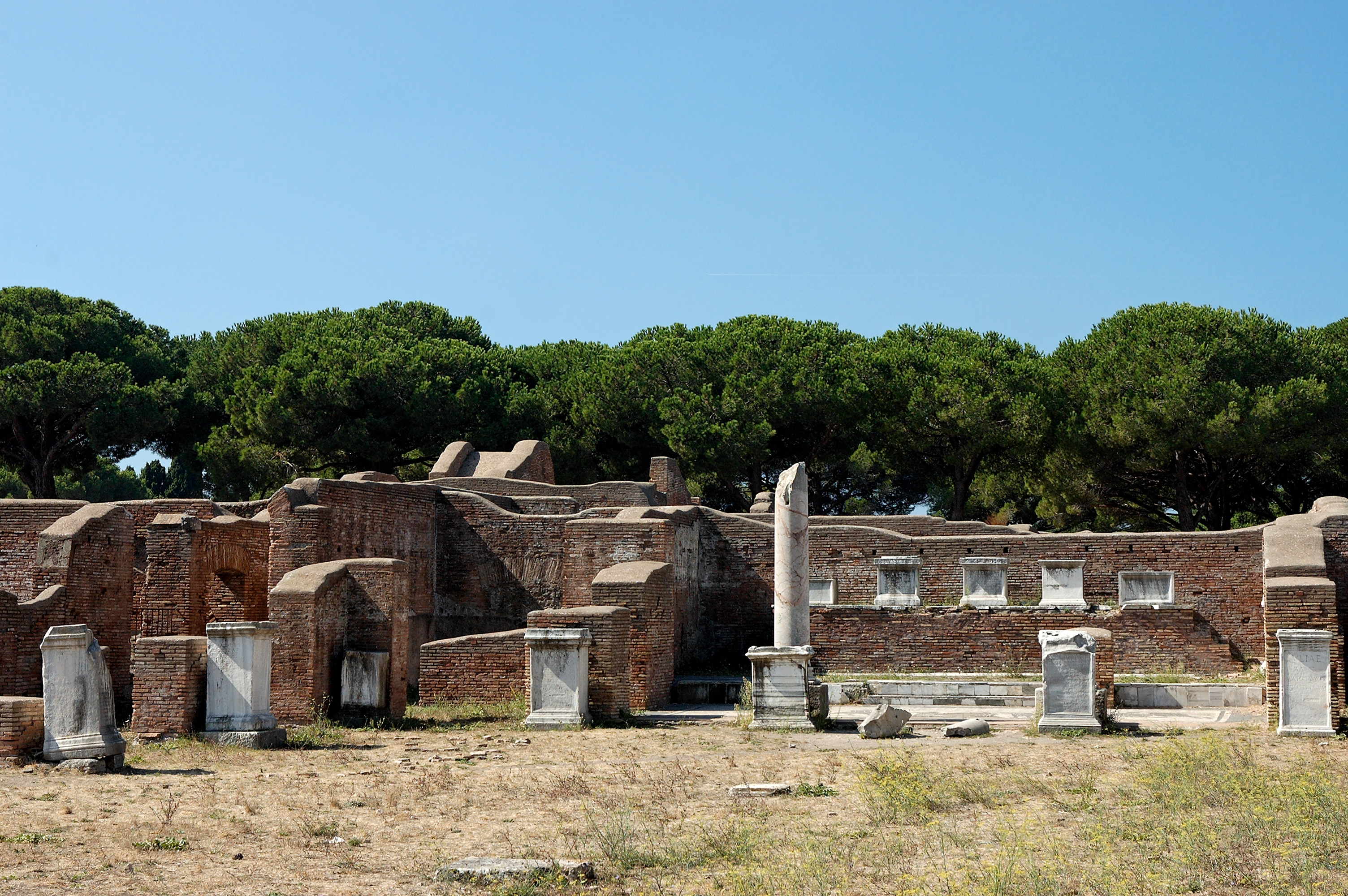 Shrine of the Imperial cult. Caserma dei Vigili, Ostia Antica, Latium, Italy.